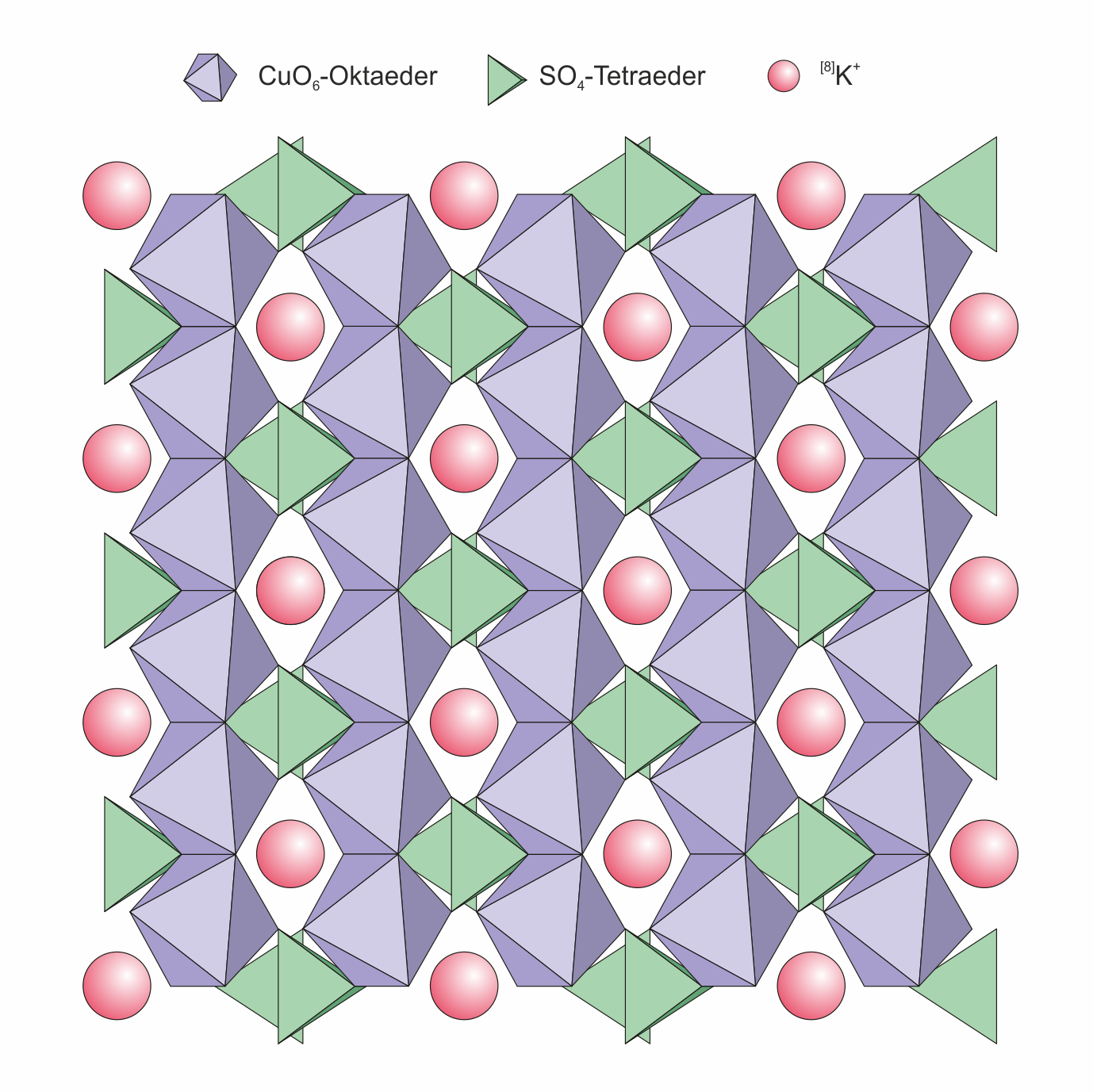 Simplified illustration of the structure of the minerals of the tsumcorite group using the example of kaliochalcite. Reference: T. Mihajlović & H. Effenberger, Mineralogical Magazine, 2004, vol. 68 (5), p. 757–767.